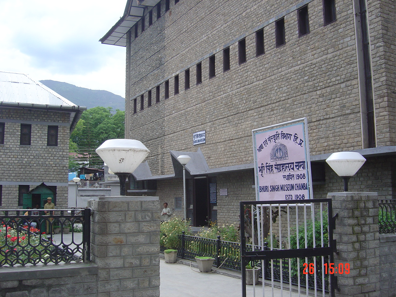 Bhuri Singh Museum. Chamba, Himachal Pradesh